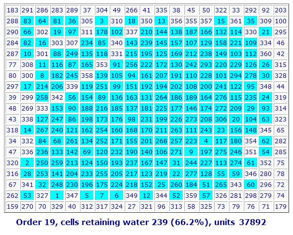 19 x 19 associative magic square. This square is to be visualized as a water retaining surface. The value in each cell specifies the height of the cell. The 2010 Zimmermann programming contest established benchmarks for the maximum water retention of magic squares up to 28 x 28. Water Retention on Mathematical Surfaces